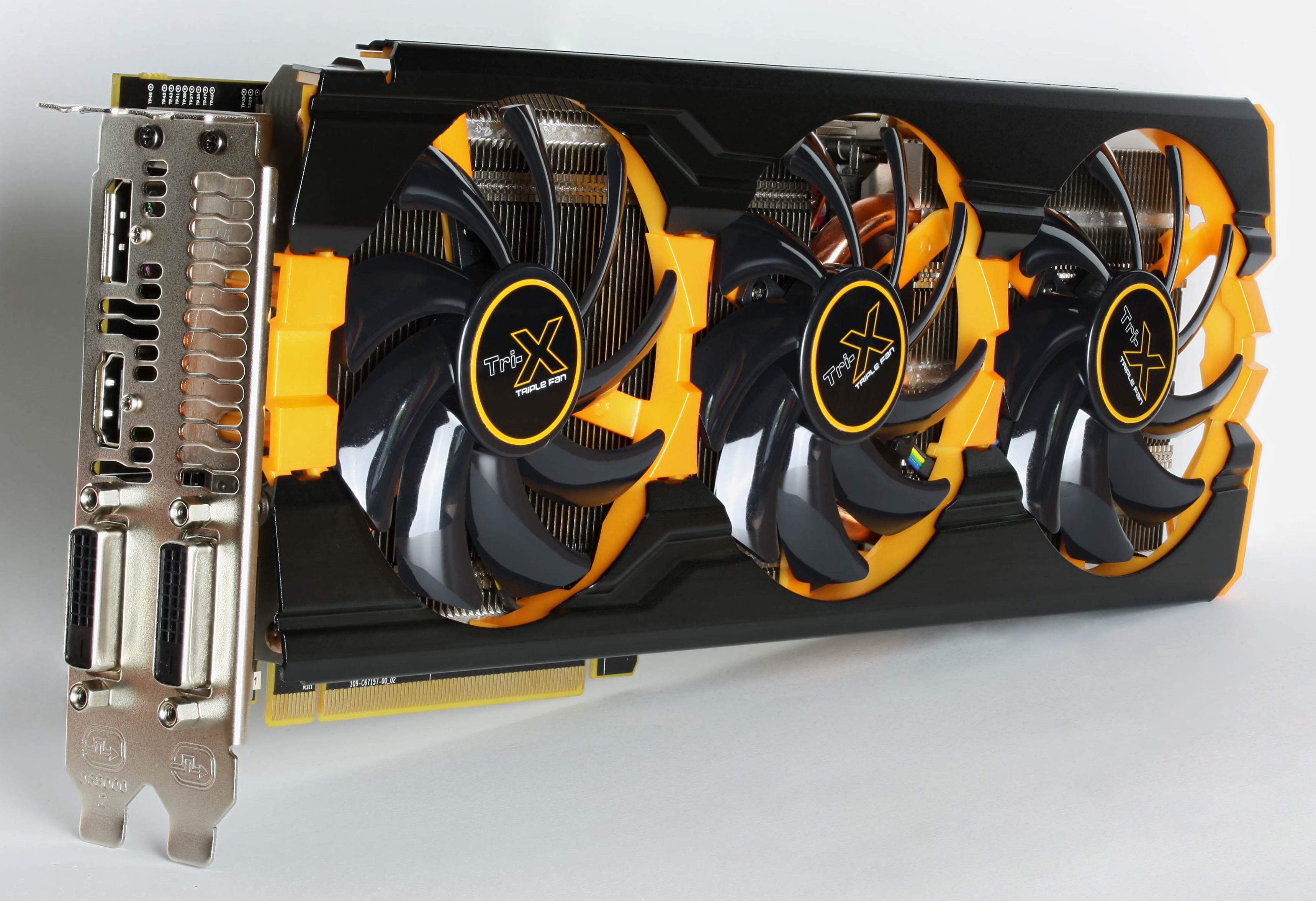 The top and front side of a Sapphire Radeon R9 290X. See also AMD Radeon Rx 200 Series